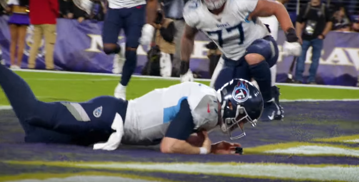 Ryan Tannehill in 2020. Image from video Titans Mic'd Up vs. Ravens (AFC Divisional Round) | Sounds of the Game, ~ 06:05.